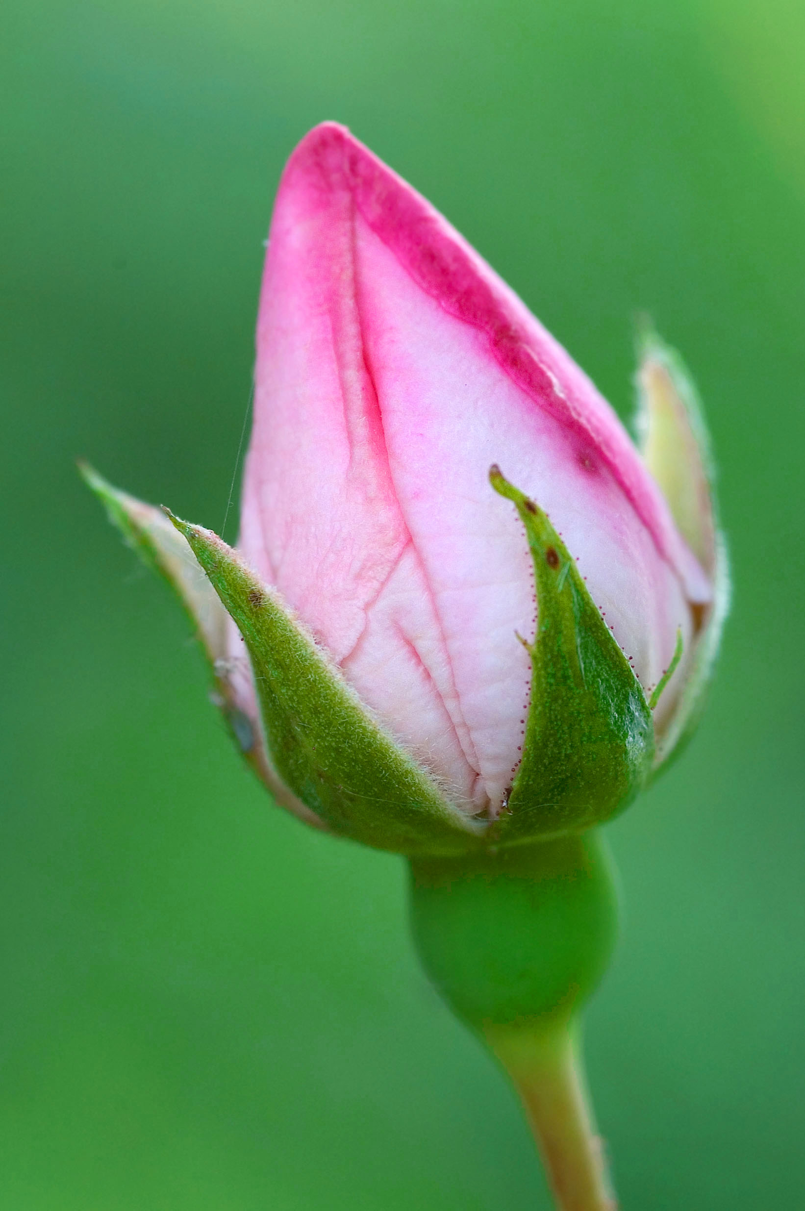 Bud of a pink rose